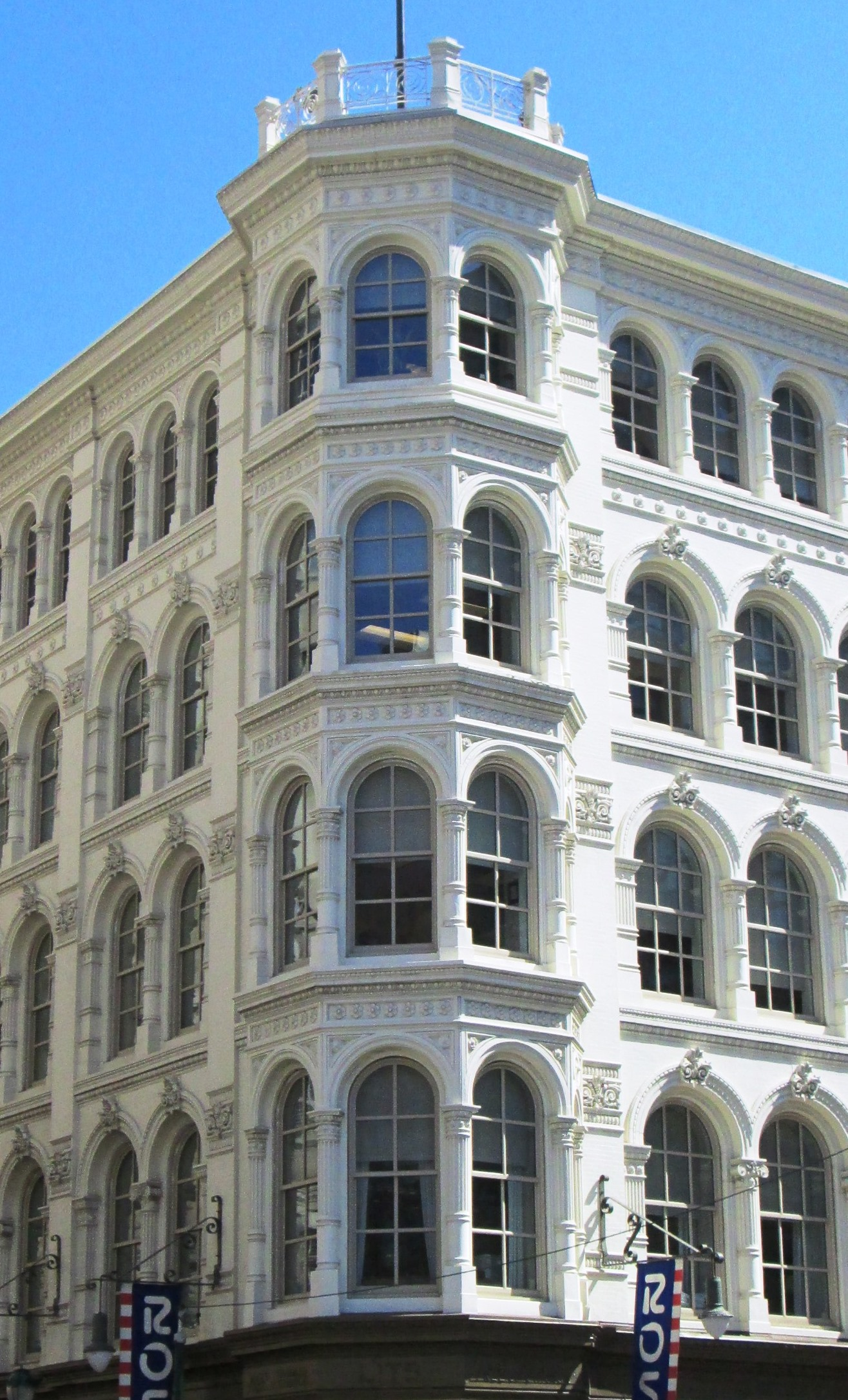 The west end of the former Lit Brothers Store Building(s), now Market Place East, at 701 Market Street between N. 7th and N. 8th Streets in the Center City area of Philadelphia, showing the octagonal tower.